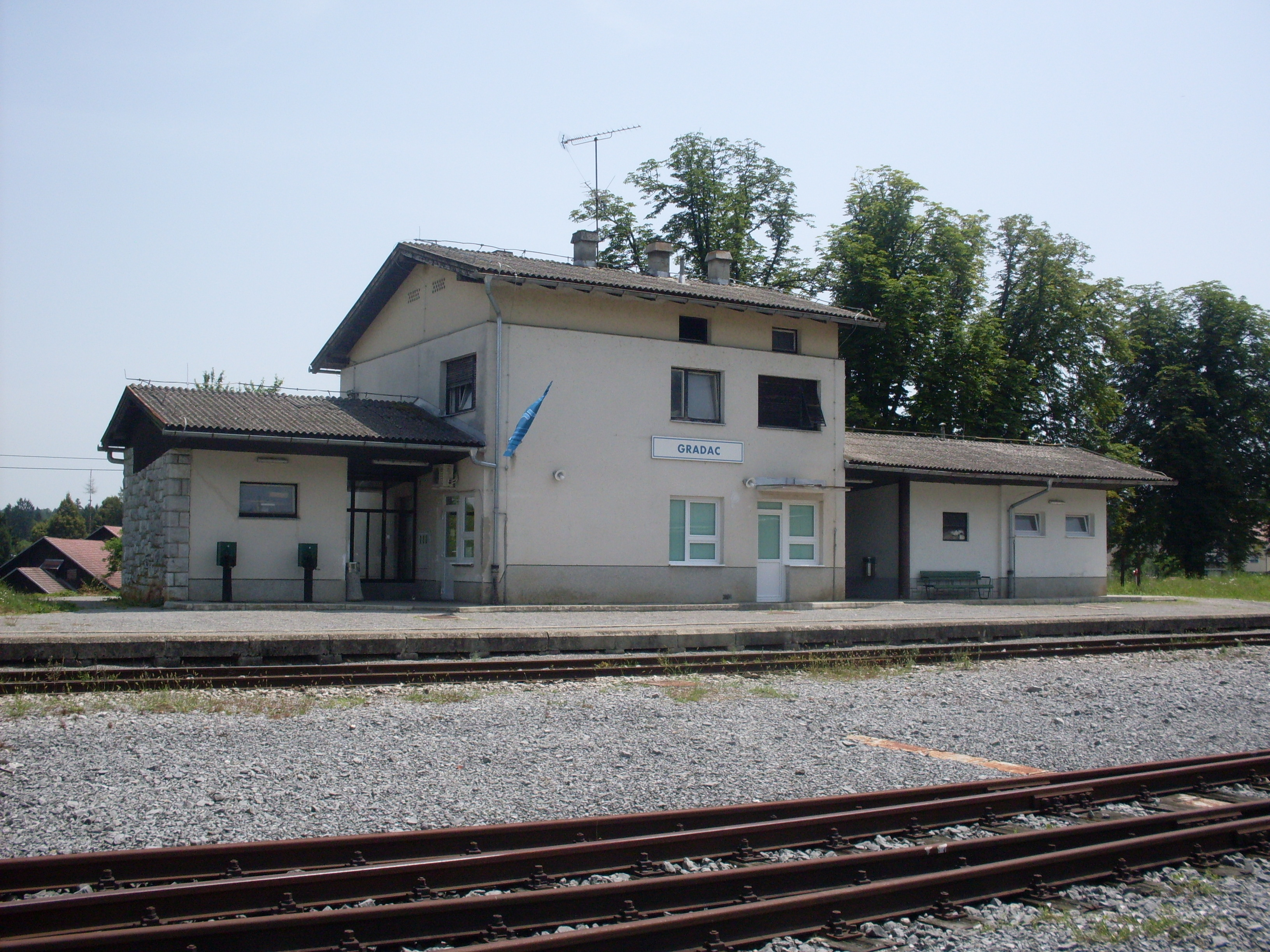 Train station in Gradac